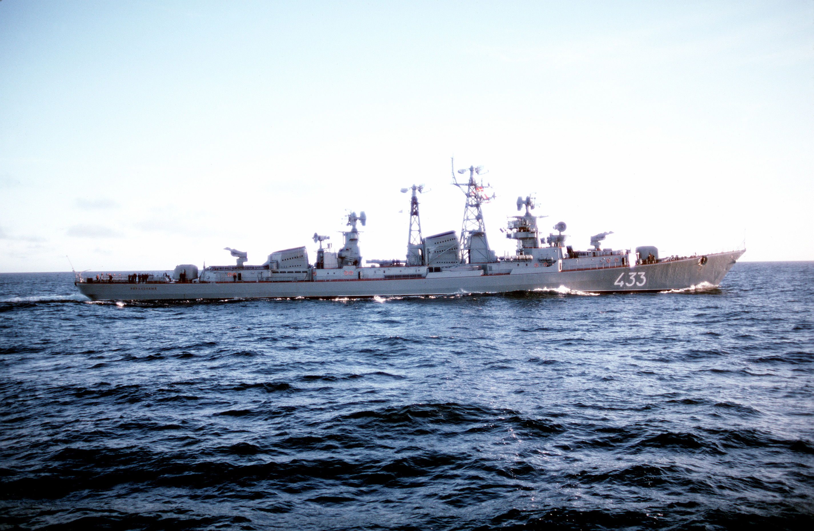 A starboard beam view of the Soviet Kashin class guided missile destroyer Obraztsovyy underway near allied ships during the multilateral NATO Exercise BALTOPS '85.